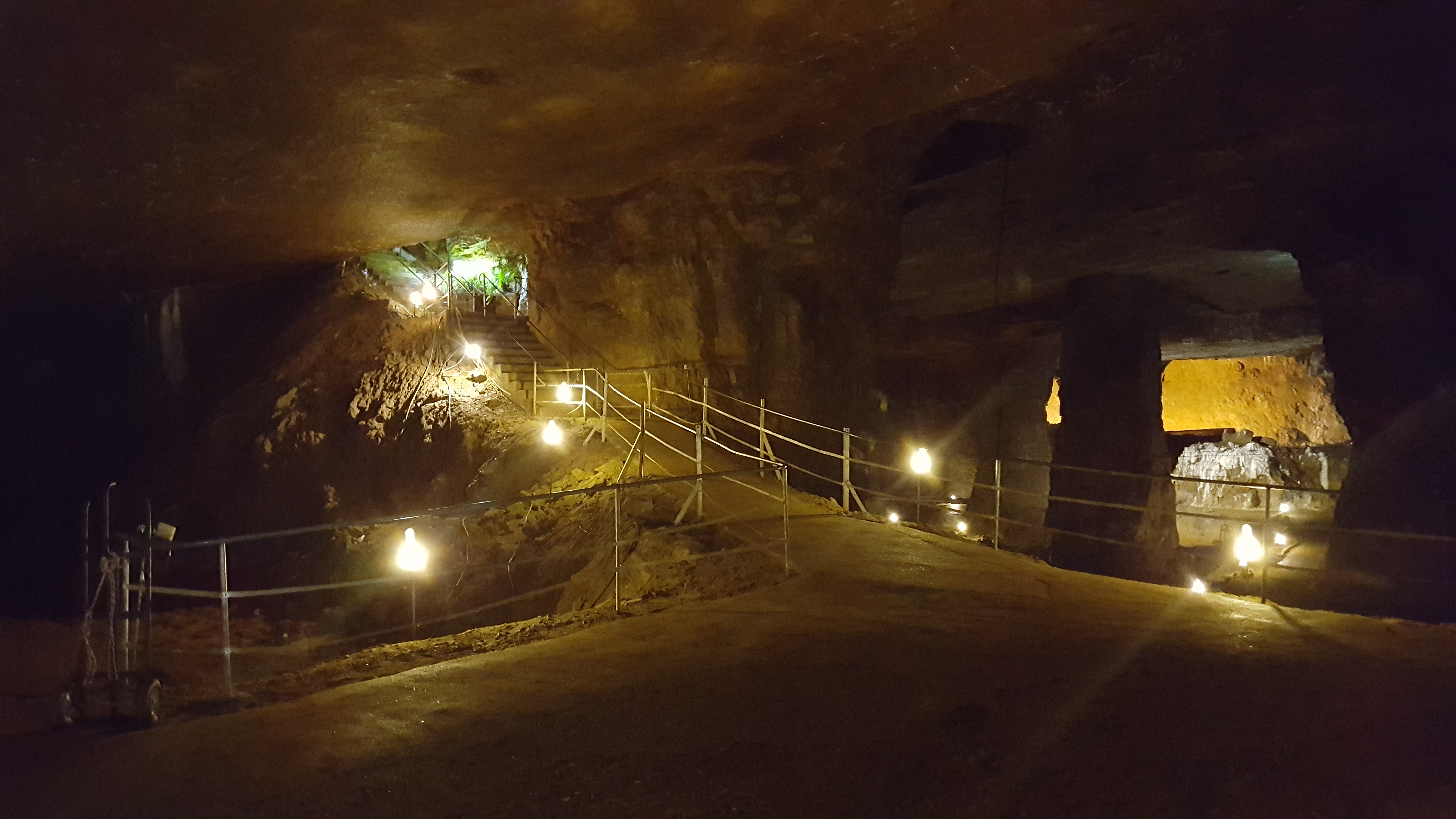 Took a tour of the Bonne Terre mines (a must do!) and explored the town a bit - late June, 2017